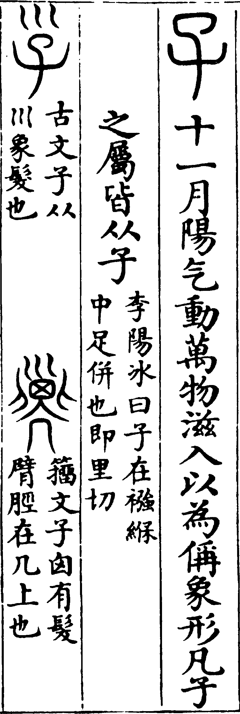 Entry for the character 子 zǐ "child", from chapter 15 of the Shuowen Jiezi, an ancient Chinese character dictionary. This entry shows three pre-Han forms of the character: the small seal form (top right), "ancient script" form (top left) and Zhòuwén form (middle left). Qiu Xigui 裘锡圭 (2000). Chinese Writing. English translation of 文字學概論 by Gilbert L. Mattos and Jerry Norman. Early China Special Monograph Series No. 4. Berkeley: The Society for the Study of Early China and the Institute of East Asian Studies, University of California, Berkeley. ISBN 978-1-55729-071-7. page 73.